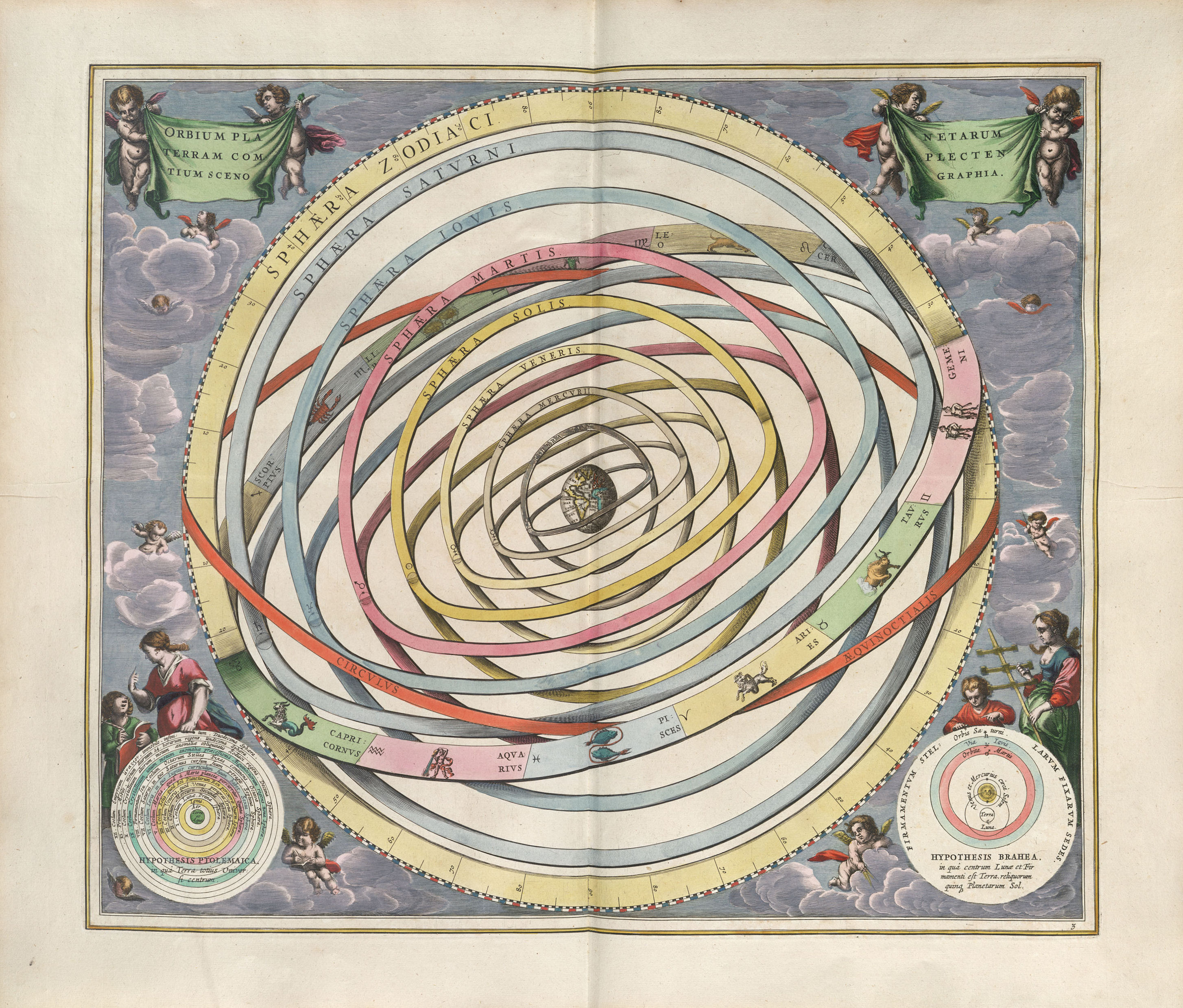 Andreas Cellarius: Harmonia macrocosmica seu atlas universalis et novus, totius universi creati cosmographiam generalem, et novam exhibens. Plate 3. ORBIUM PLANETARUM TERRAM COMPLECTENTIUM SCENOGRAPHIA - Scenography of the planetary orbits encompassing the Earth.